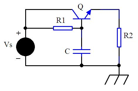 Capacitance multiplier electronic circuit